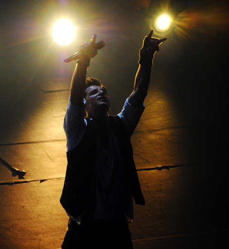 Sakis Rouvas performing on the Face2Face shows at Athens Arena on 1 January 2011.